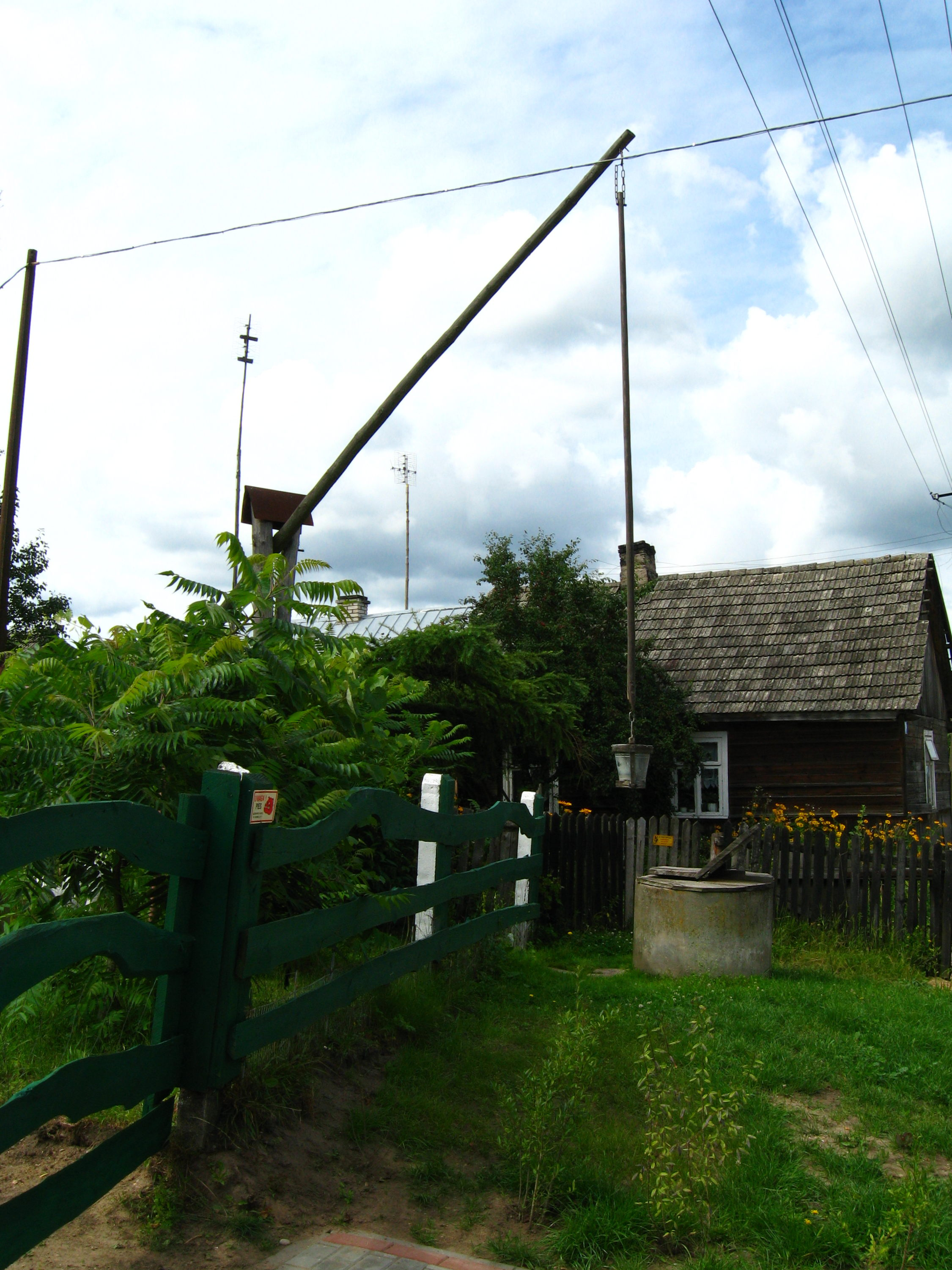 Shadoof at Załuki village, gmina Gródek